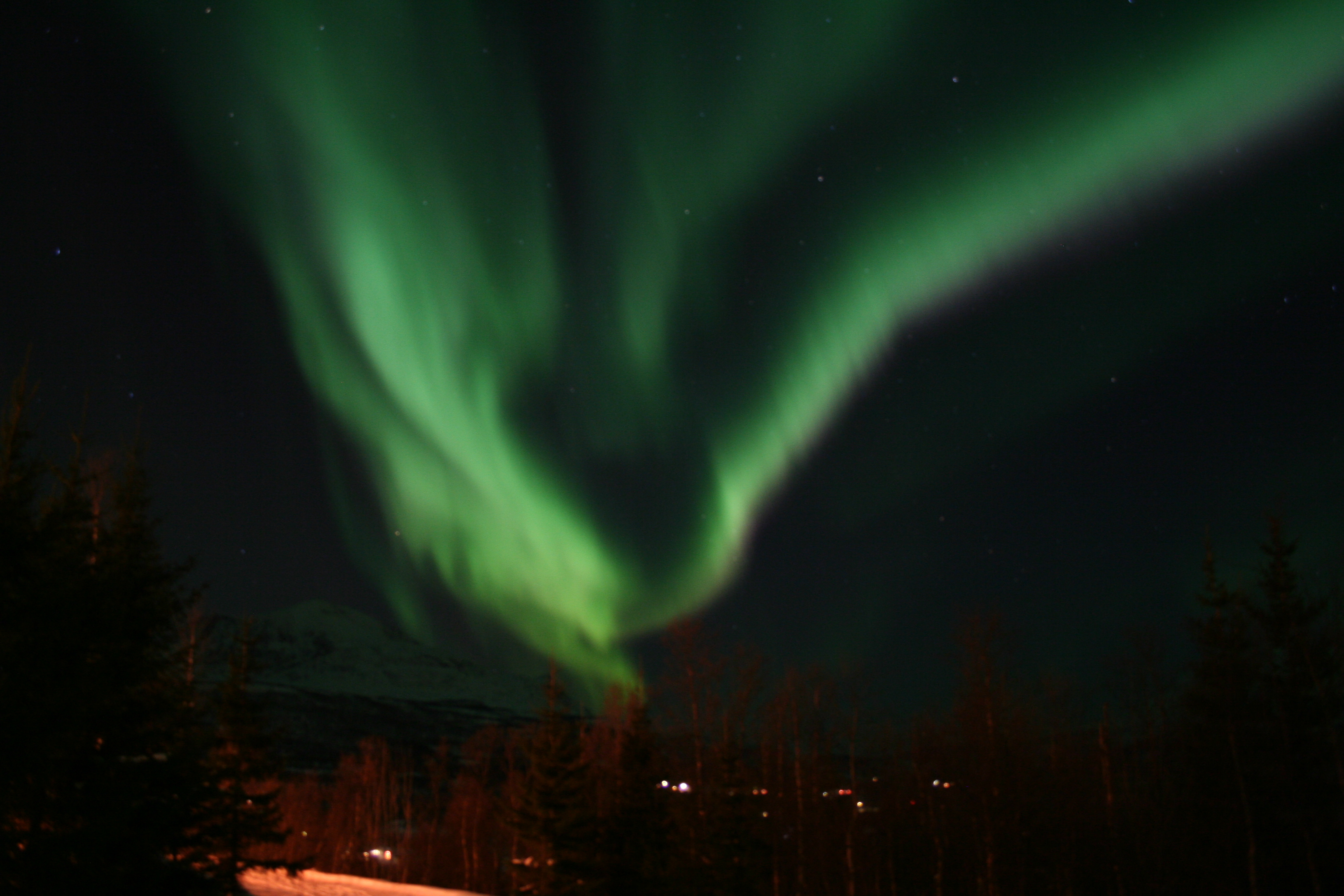 Aurora Borealis as seen from Laberg, Salangen, Troms, Norway on new years eve 2005.